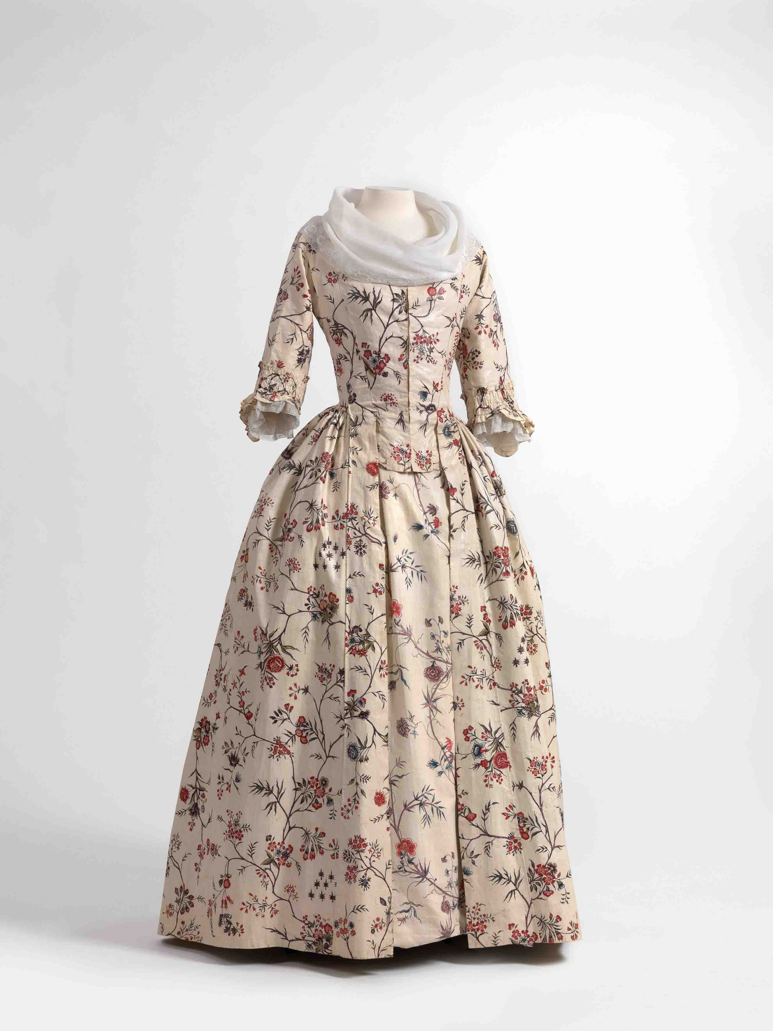 Anonymous, Dress (robe à l'anglaise) and skirts in chintz, India, ca. 1770-1790, shawl (fichu) in embroidered batiste, 1770-1800. Jacoba de Jonge Collection in MoMu - Fashion Museum Province of Antwerp, Photo by Hugo Maertens, Bruges. MoMu Collection T13/582/J81 and T12/995AB/B37.